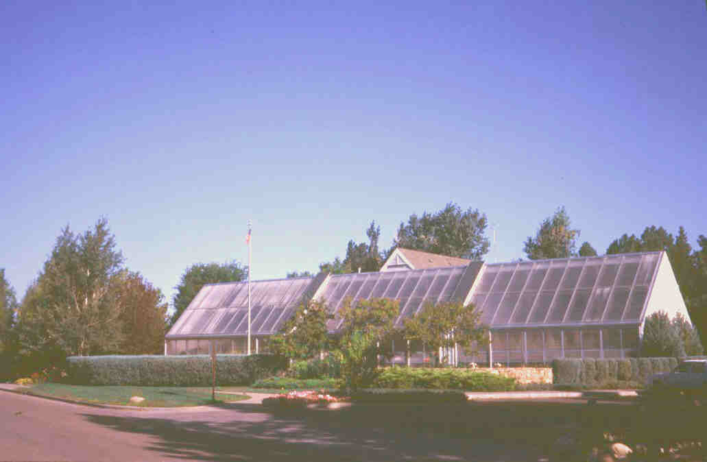 Shot of the front of the Cheyenne Botanic Gardens solar conservatory. Author Shane Smith. No copyright or other rights reserved.